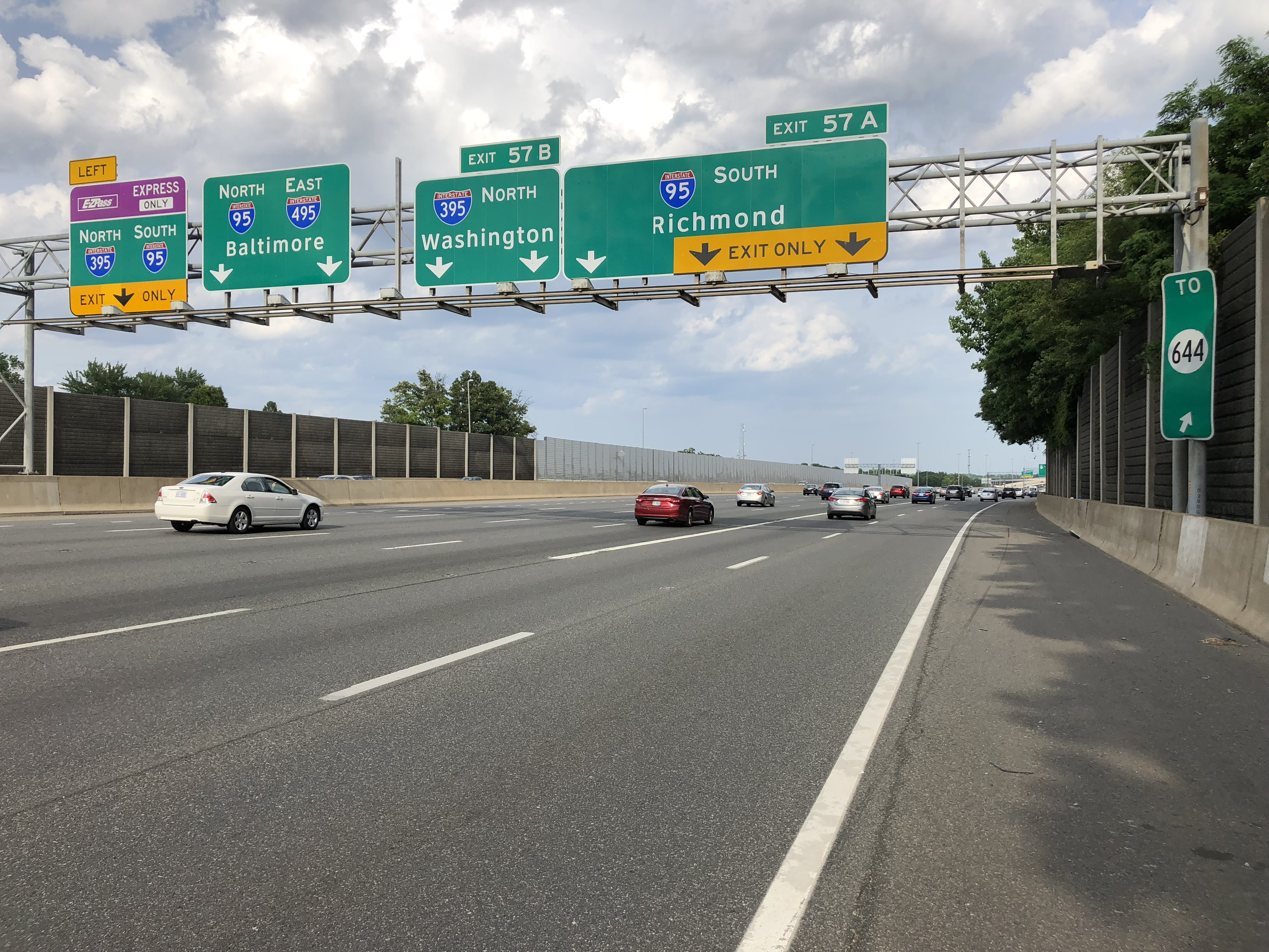 View south along the outer loop of the Capital Beltway (Interstate 495) at Exit 57A (Interstate 95 South, Richmond) along the edge of North Springfield and Springfield in Fairfax County, Virginia